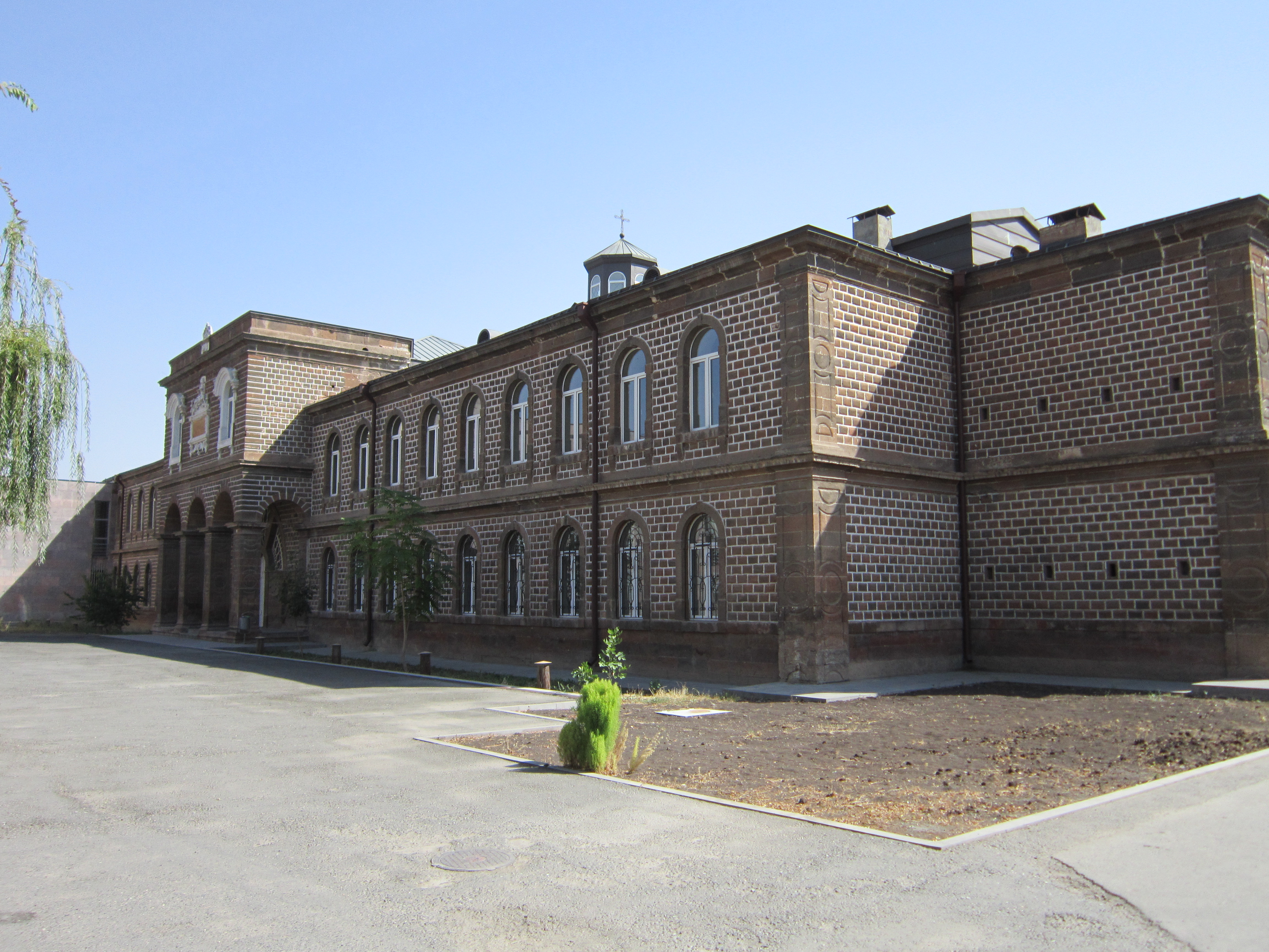 Photo of Gevorkian Seminary (1874) taken by Lkahd's camera in 2013